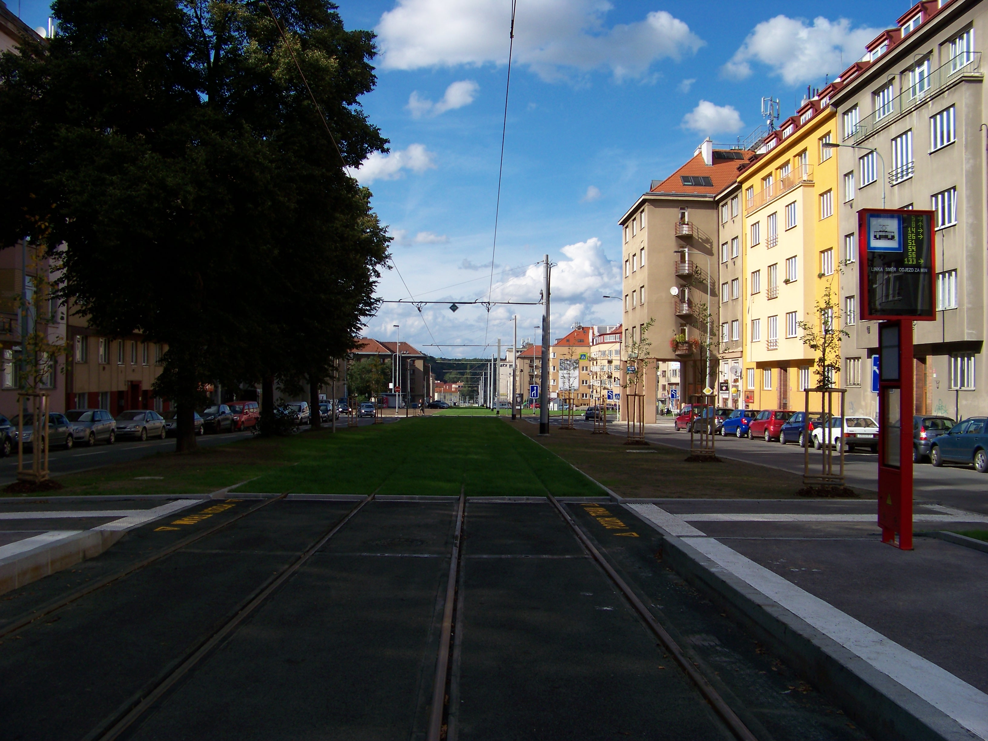 Prague-Dejvice and Bubeneč, the Czech Republic. Jugoslávských partyzánů street, a new tram stop Zelená. - OpenStreetMap(Info)